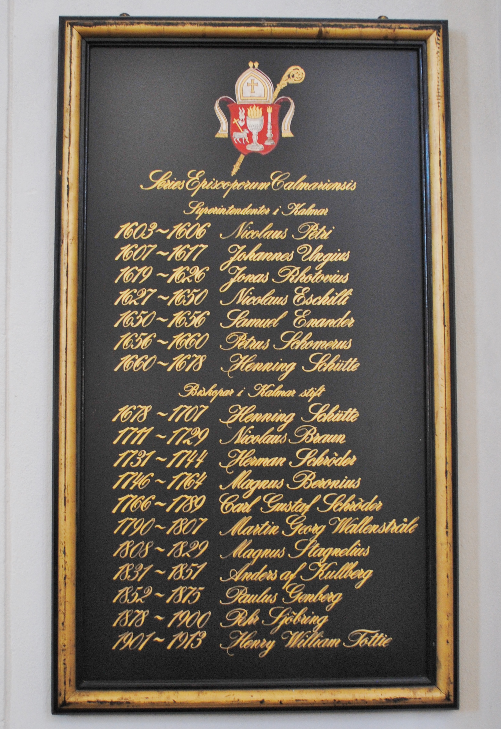 Kalmar Chatedral.Series Episcoporum Calmariensis. Board of superintendents and bishops in the Diocese of Kalmar.